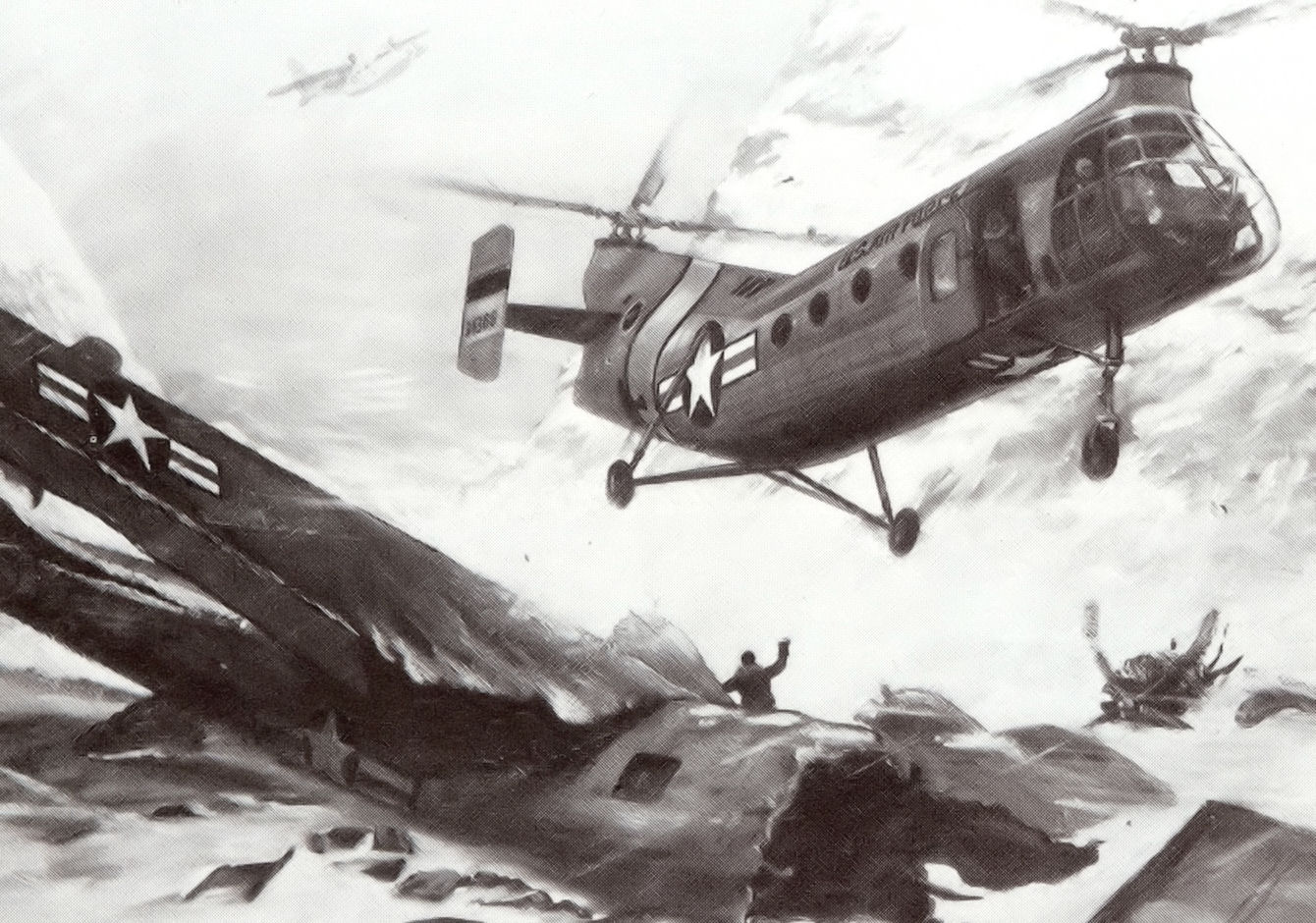 Artist's concept of a 10th Air Rescue Group SH-21 coming to the assistance of the crew of a TB-29 that crashed in the Talkeetna Mountains, north of Anchorage, Alaska in November 1957. An SA-16 Orbits overhead, providing communications.